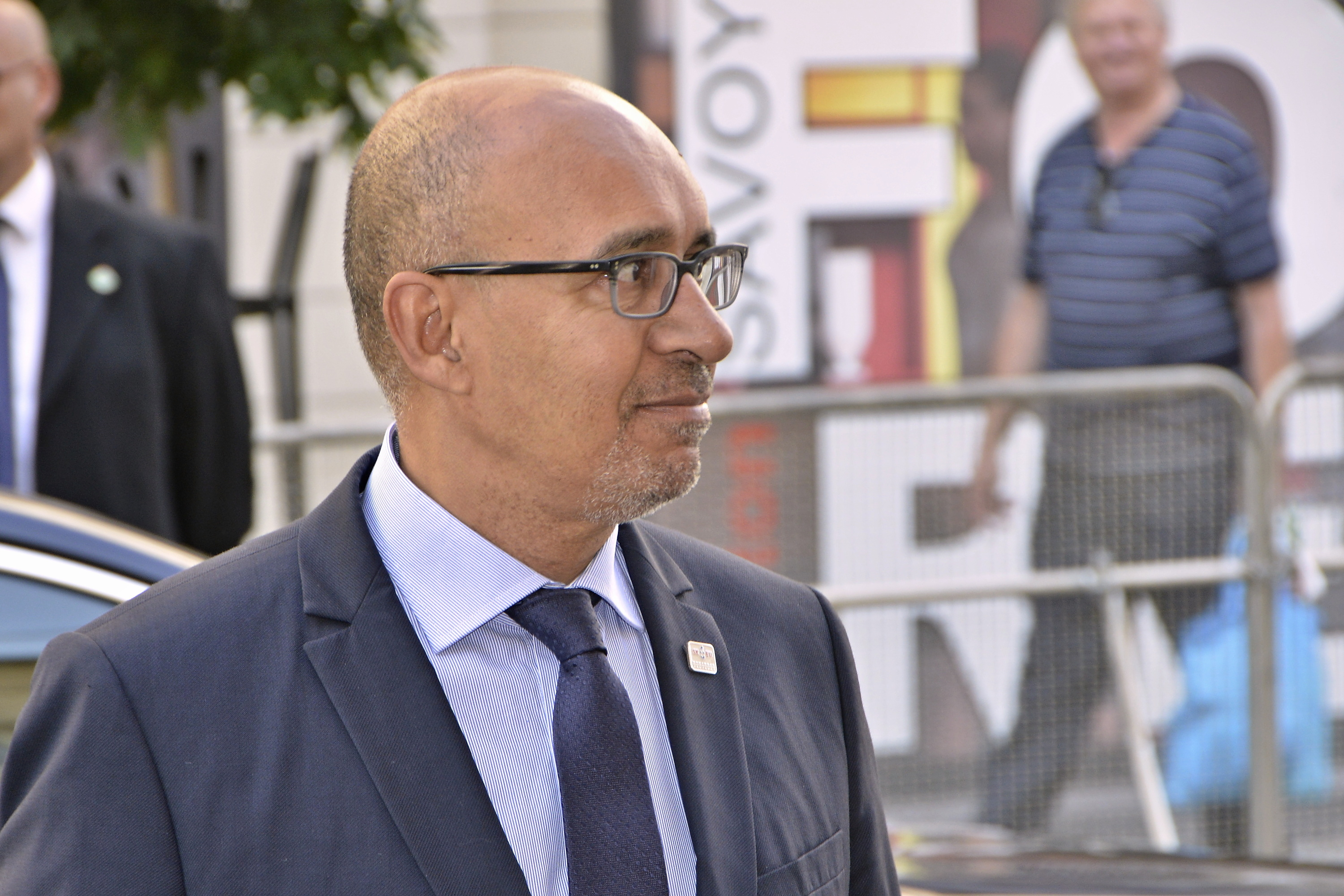 France Mr Harlem Desir State Secretary for European Affairs, attached to the Minister of Foreign Affairs and International Development / Informal Meeting of Ministers and State Secretaries for European Affairs (Informal GAC) Photo Rastislav Polak